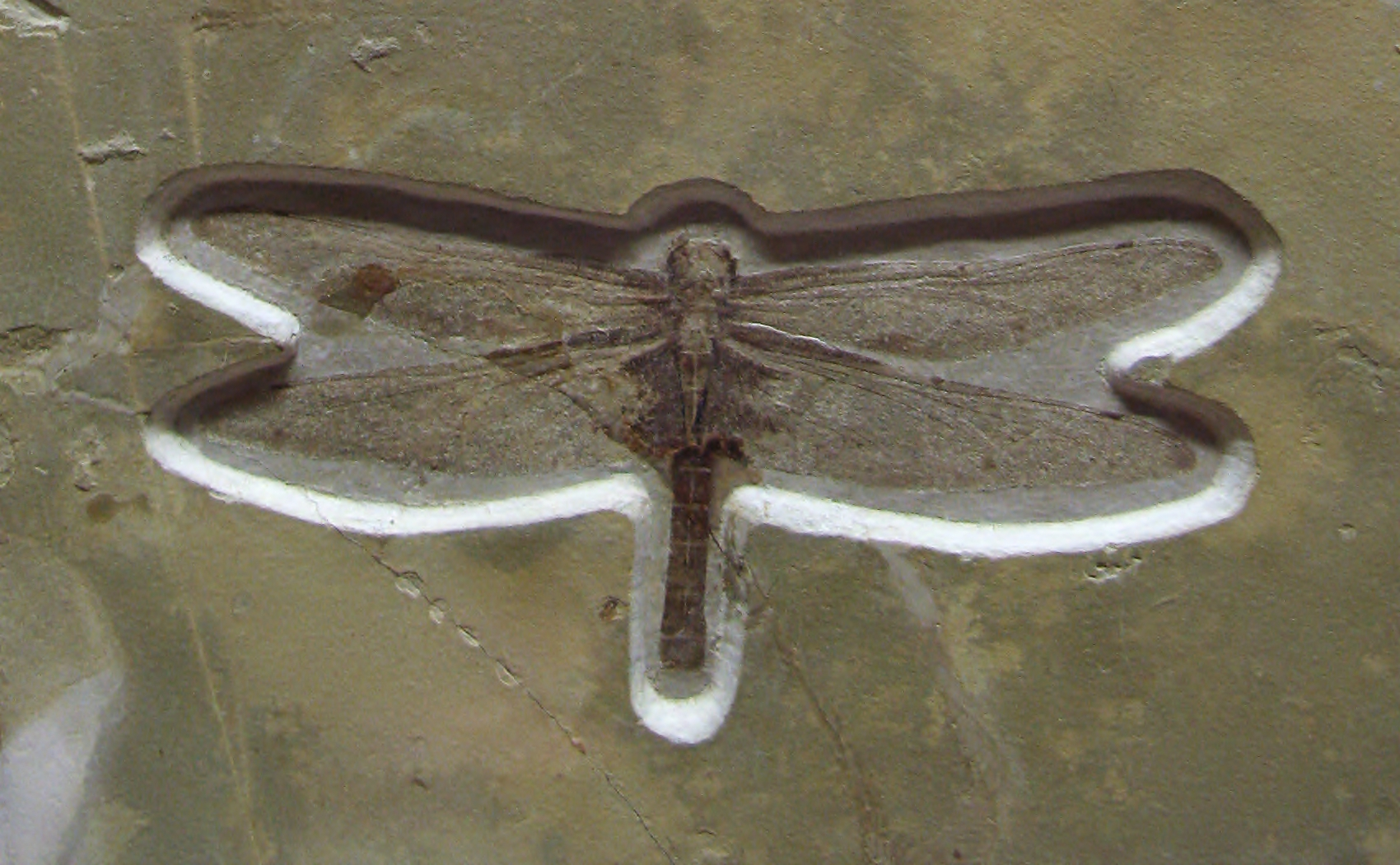 Fossil Brunetaeschnidium nusplingensis (syn Urogomphus nusplingensis); wingspan 15.5 centimetres (6.1 in); Jurassic - Kimmeridgian Nusplingen Limestone Formation, Germany